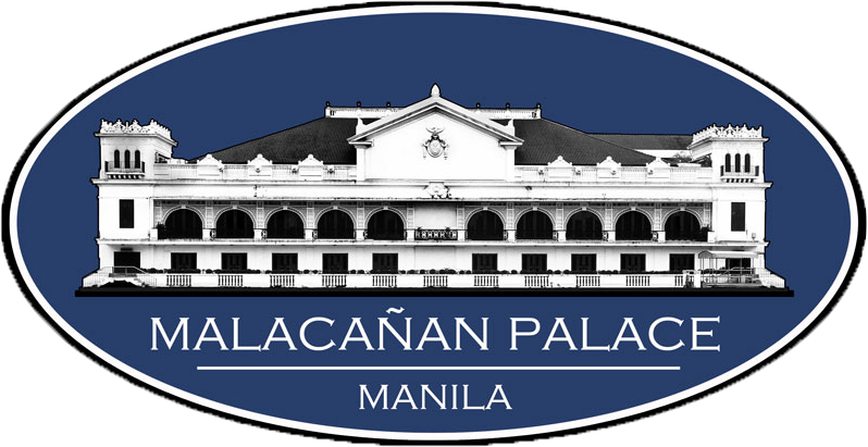 Seal of the Executive Office of the President of the Philippines (The Malacañan)